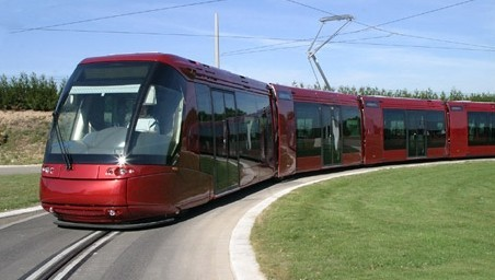 Tramway de Clermont-Ferrand